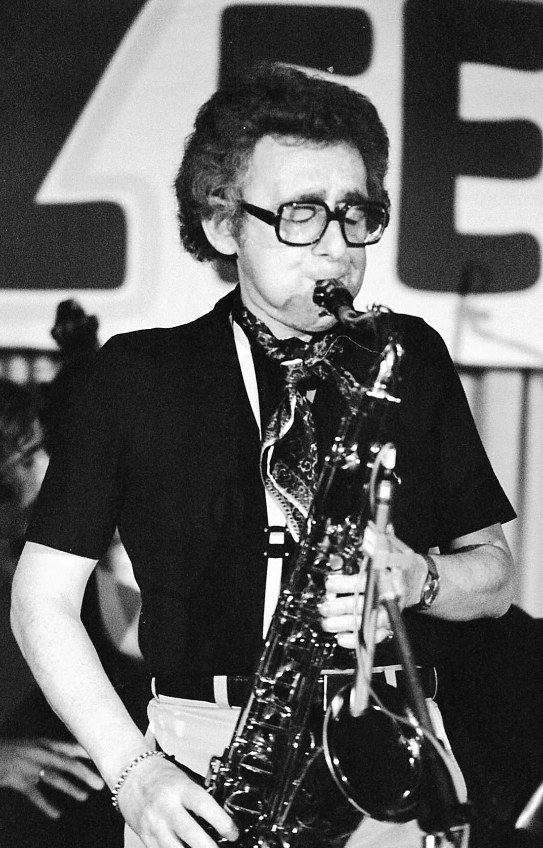 René McLean at the 1976 North Sea Jazz Festival